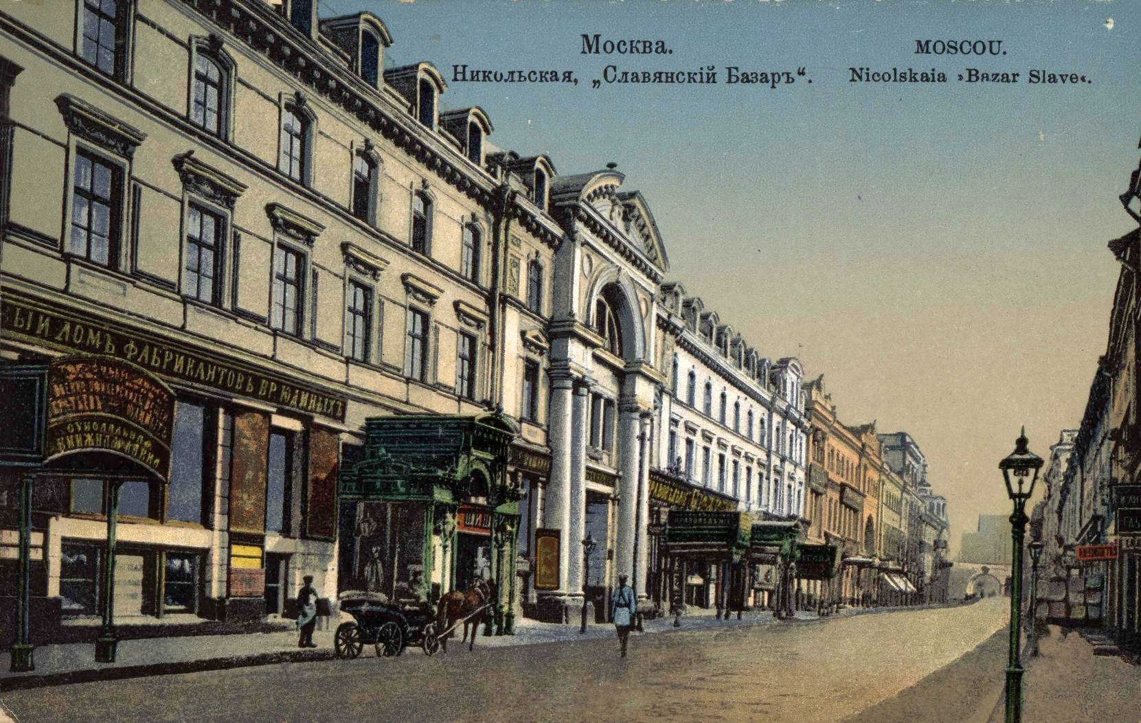 Nikolskaya Street in Moscow. Slavyansky Bazar Hotel